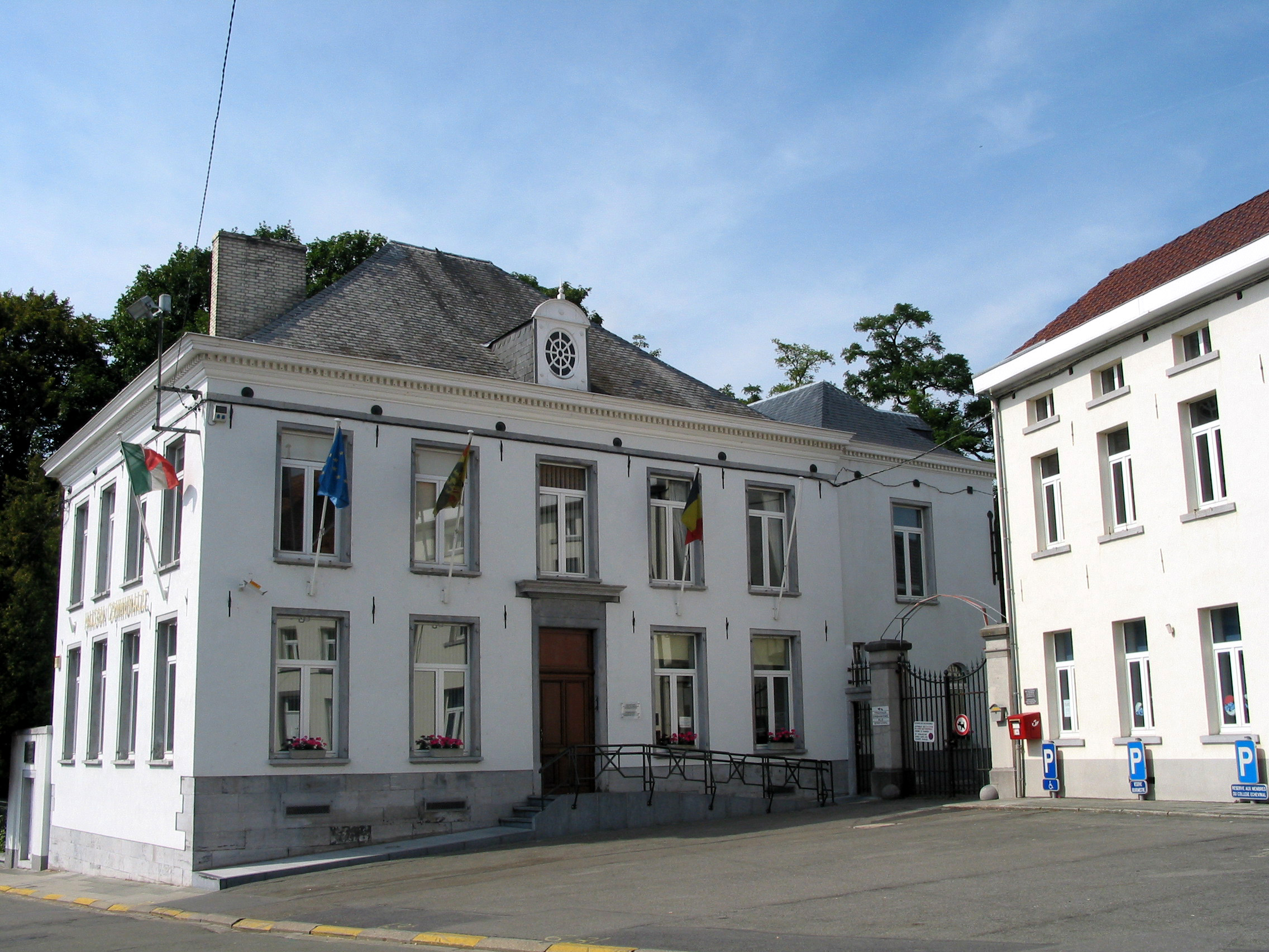 Rebecq (Belgium), the town hall.